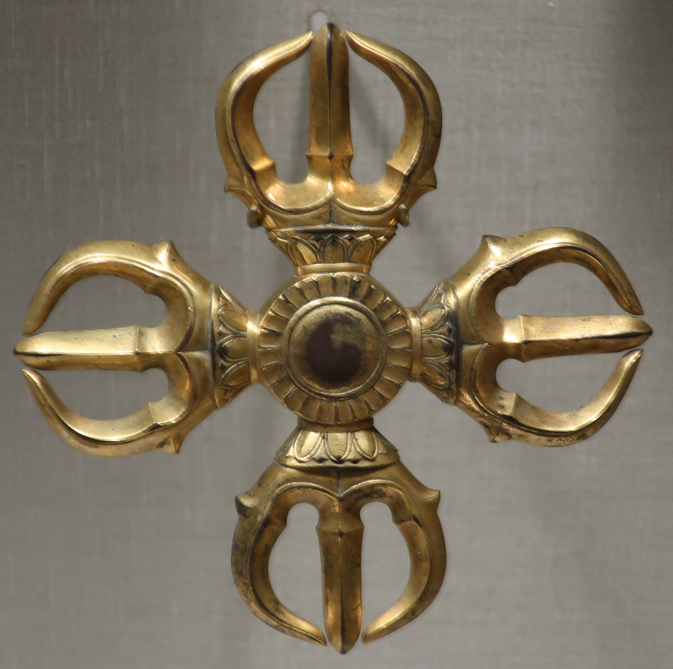 Ritual object (Katsuma vajra) from Japan, Kamakura period, 13th-14th century, gilt bronze, Honolulu Museum of Art, accession 3797.1